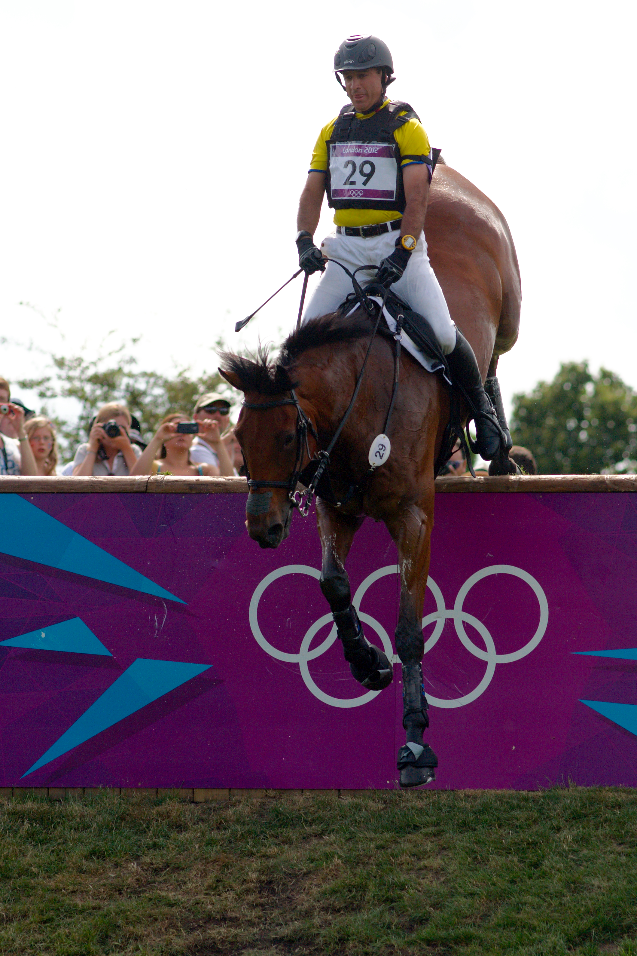 Ronald Zabala-Goetschel and Master Rose, competing for ECU, at fence 20, during the cross-country phase of the Eventing during the 2012 Olympic Games in Greenwich Park, London.